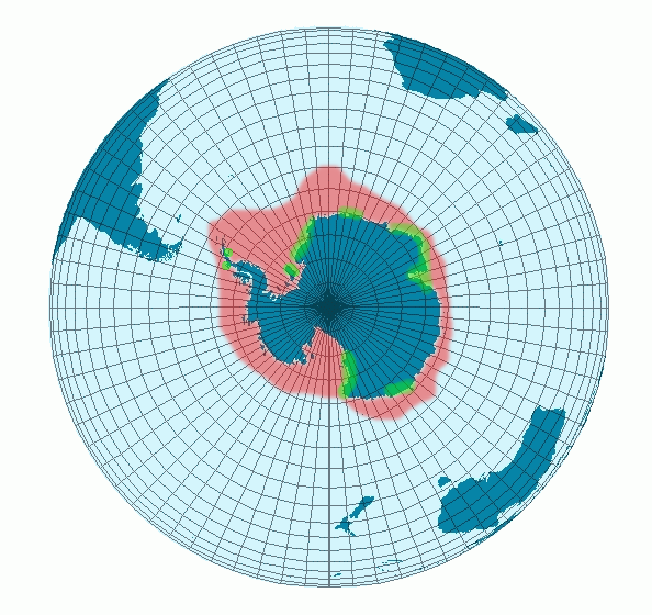 Emperor Penguin (Aptenodytes forsteri) - Habitat map and breeding areas. Red: areas where the Emperor Penguin lives. Green: areas where the Emperor Penguin breeds.